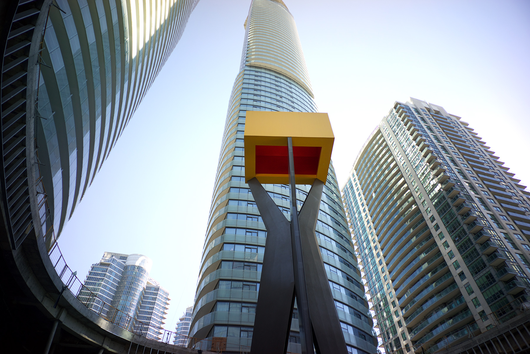 Image of Dream House (2015), a permanent public art commission by Vong Phaophanit and Claire Oboussier.